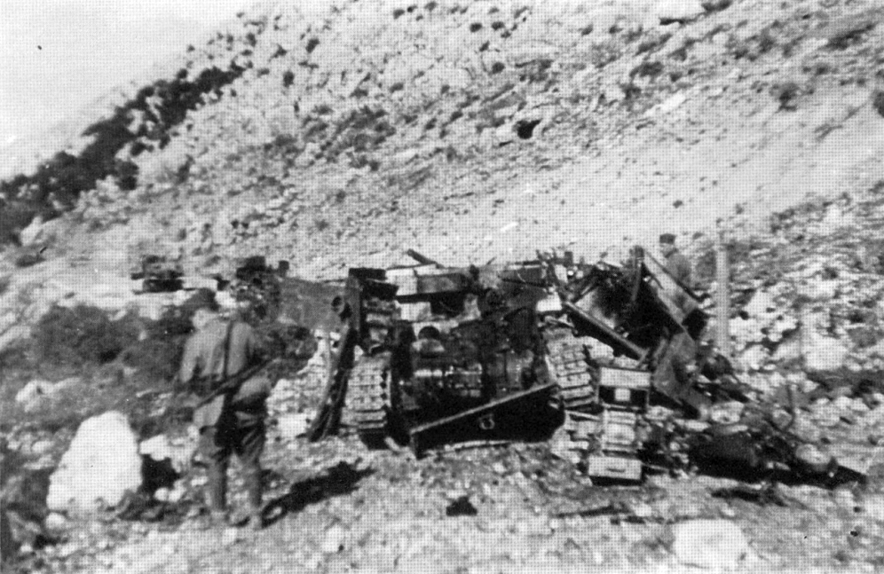 On 1944 a German armored incursion into Partisan-controlled areas in central dalmatia failed and led to this picture being taken of a destroyed German tank.